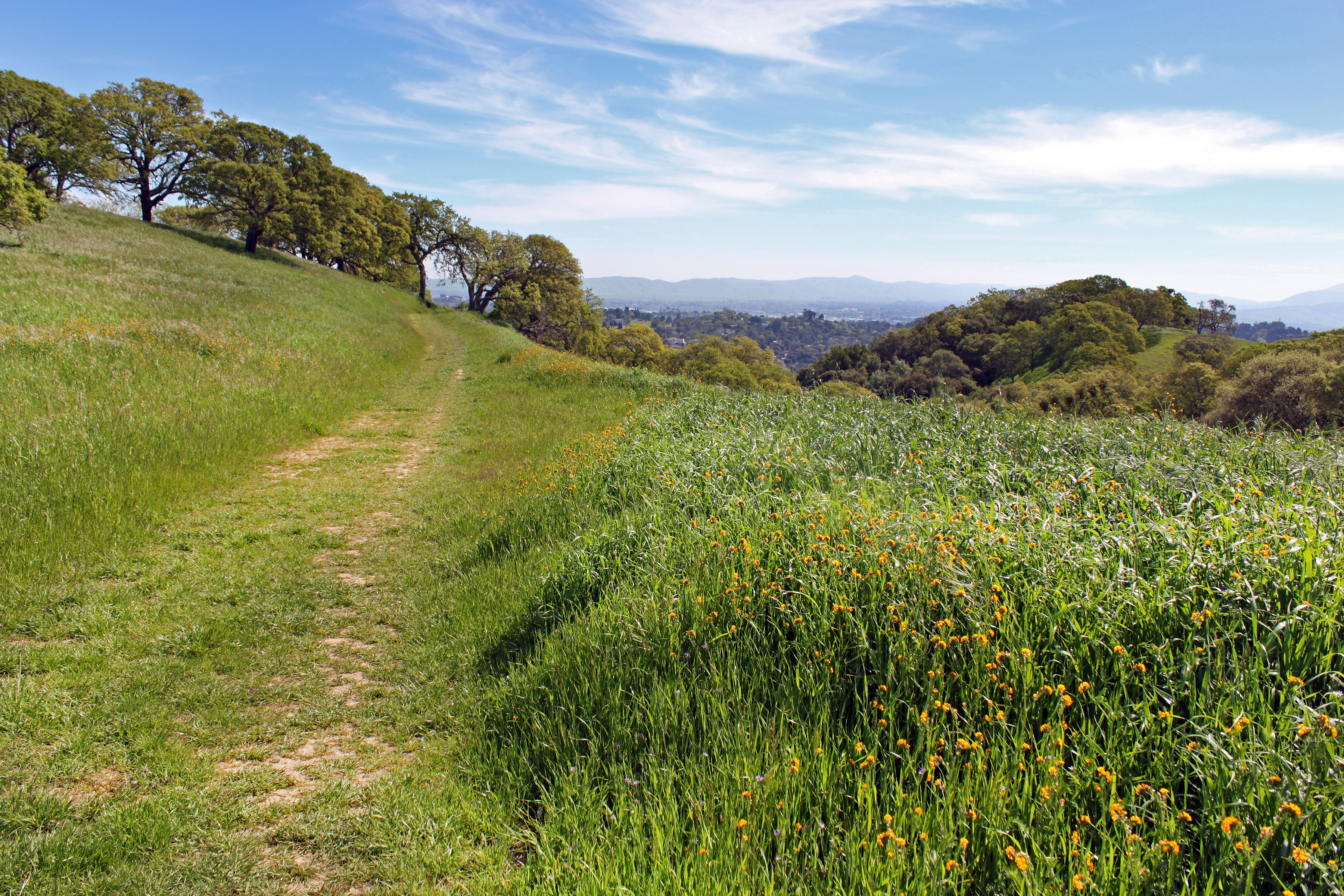 "Hiking trail along Mount Wanda, part of the John Muir National Historic Site"